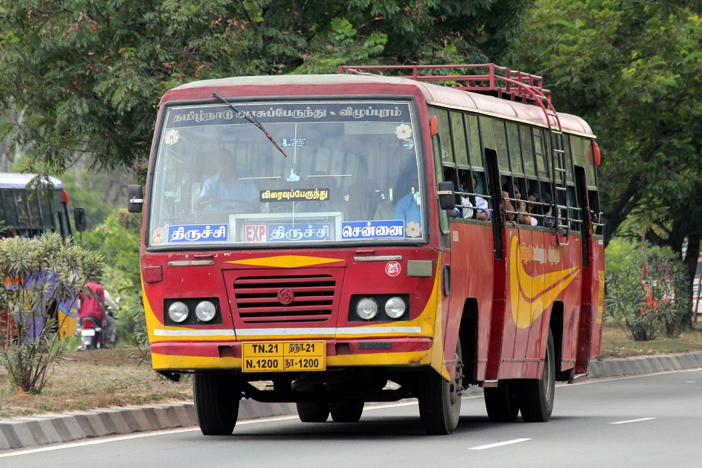 TNSTC bus